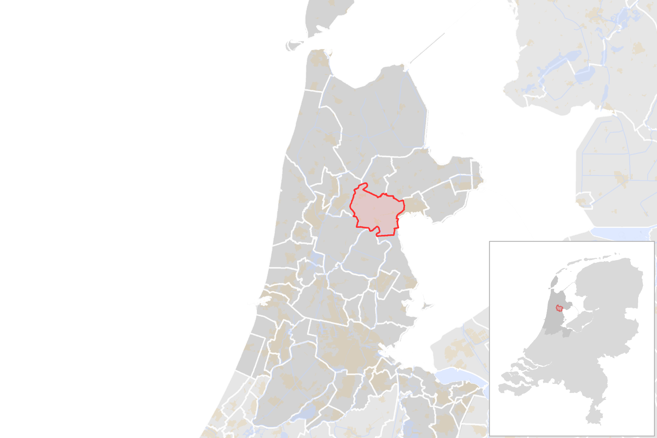 Locator map showing municipality boundary of one of the 390 Dutch municipalities (as of 2016)